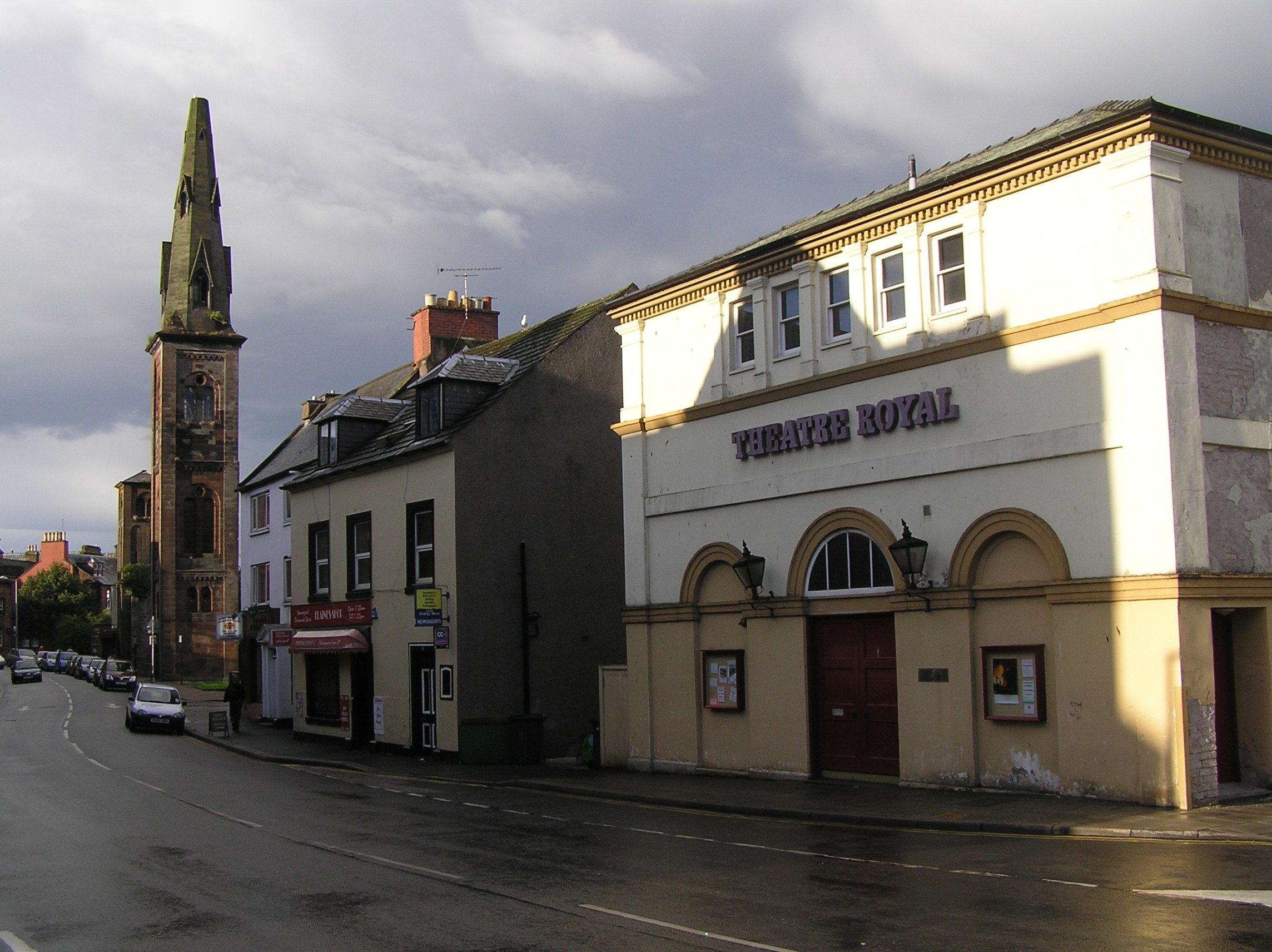 A view of Shakespeare Street in Dumfries, showing the Theatre Royal and the spire of the old St Andrew's Cathedral. The rest of the cathedral was destroyed by a fire in 1962, and subsequently replaced by a modern church on the same site.